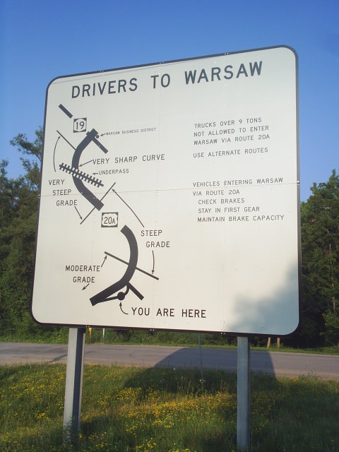 A sign along U.S. Route 20A warning motorists of steep grades and sharp turns on US 20A east of Warsaw, New York.